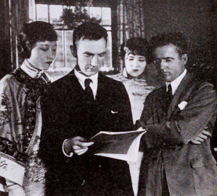 Still from the American drama film Bits of Life (1921) with Anna May Wong, writer Hugh Wiley holding a script, Teddy Sampson, and director Marshall Neilan, on page 45 of the July 9, 1921 Exhibitors Herald.